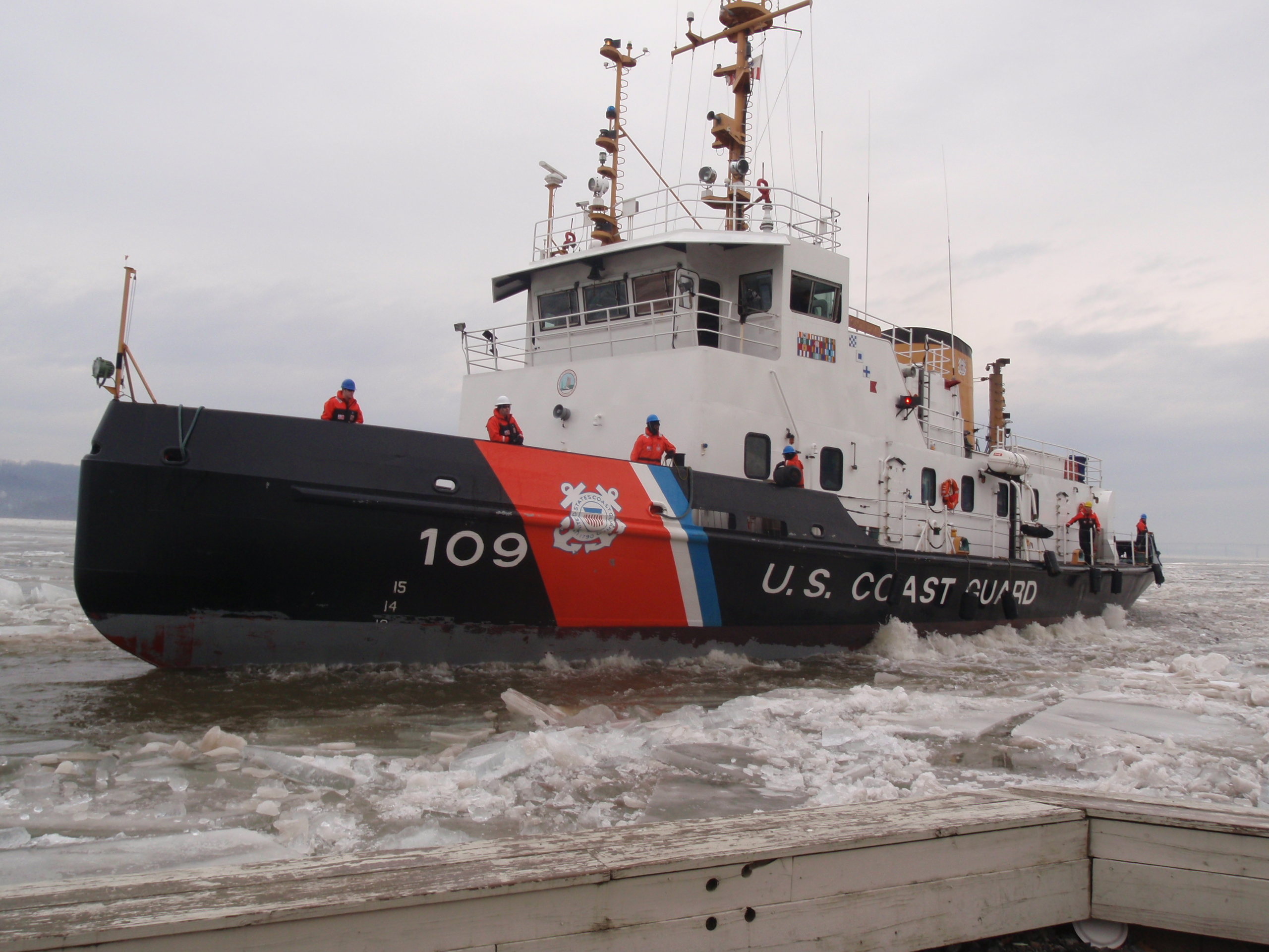 Cutter Sturgeon Bay at Rhinecliff landing 2/2/14 1608